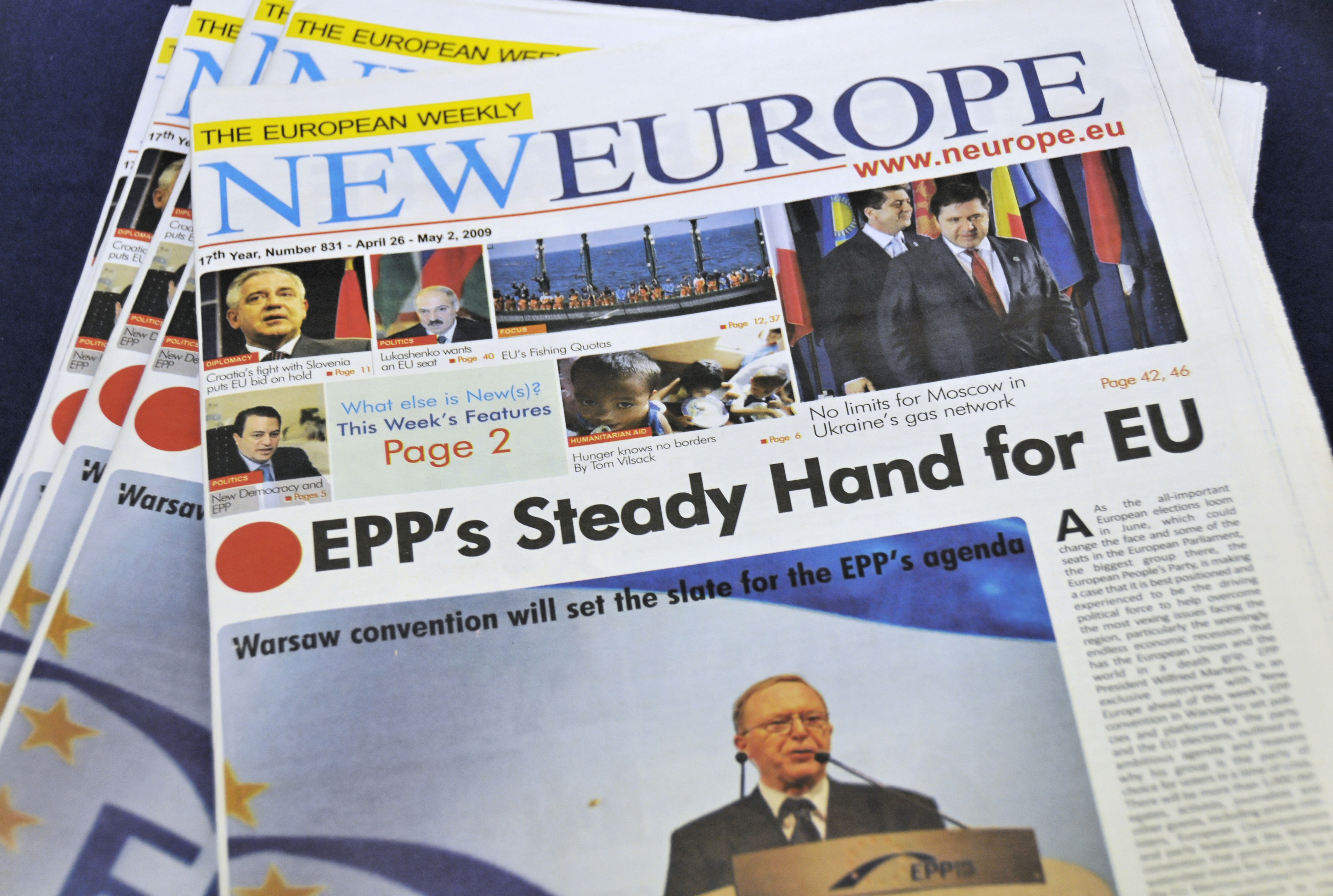 EPP Congress Warsaw